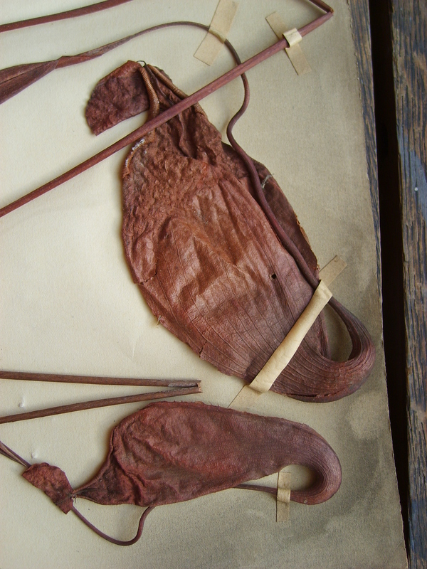 An isotype of Nepenthes thorelii deposited at the Museum National d'Histoire Naturelle in Paris, France. This specimen is a female plant with upper pitchers.